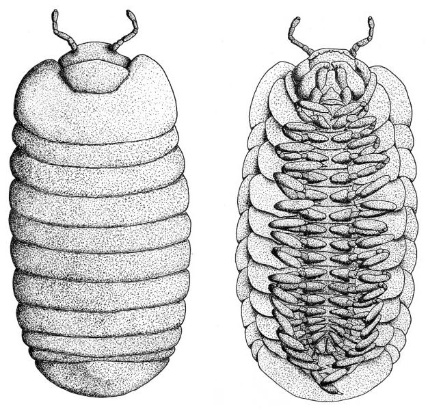 drawing of female of Glomeris marginata (Myriapoda, Diplopoda: Glomeridae). First image is dorsal view, second image is ventral view.